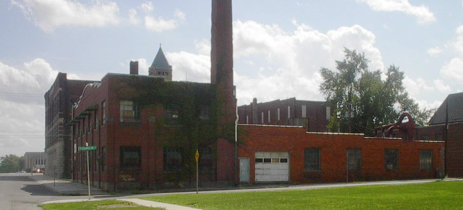 Franklin Street side of the Cox Building in Hartford City, Indiana. Building, built in 1890s, is part of the Hartford City Courthouse Square Historic District in National Register of Historic Places. It was expanded after 1900.